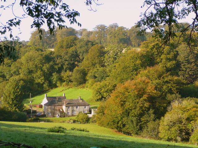 Brooks, near to Boconnoc, Cornwall, Great Britain. The house is surrounded by oak and beechwood just starting to turn colour.